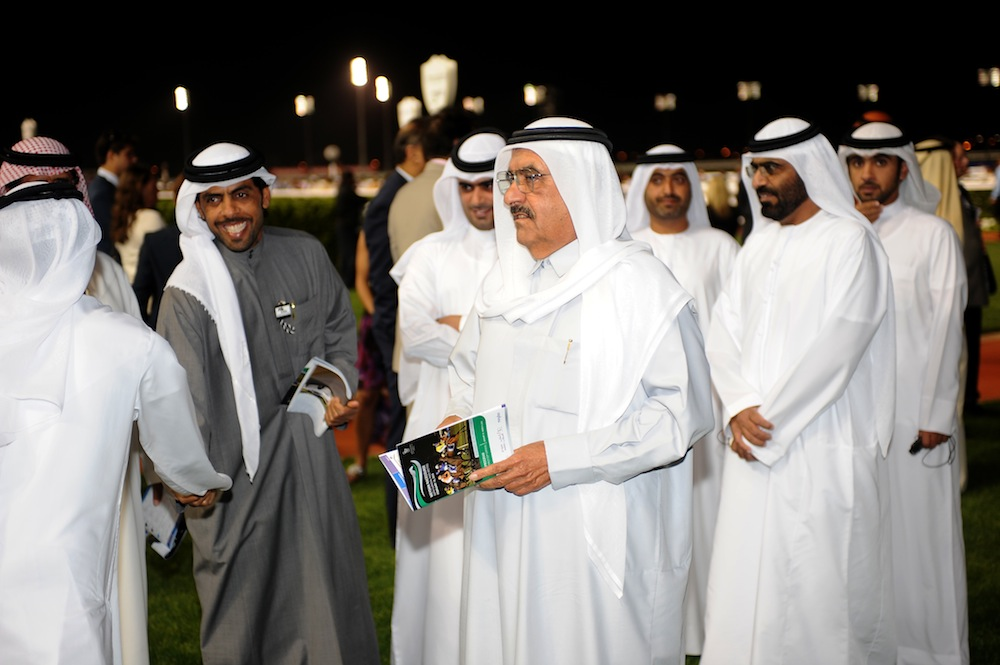 Al Tayer Motors is a regular sponsor of horseracing and also supports a domestic “Racing at Meydan” card in December as well as the 3200m stayers’ race, the Group 3 $1million Dubai Gold Cup on Dubai World Cup day, March 30 2013.